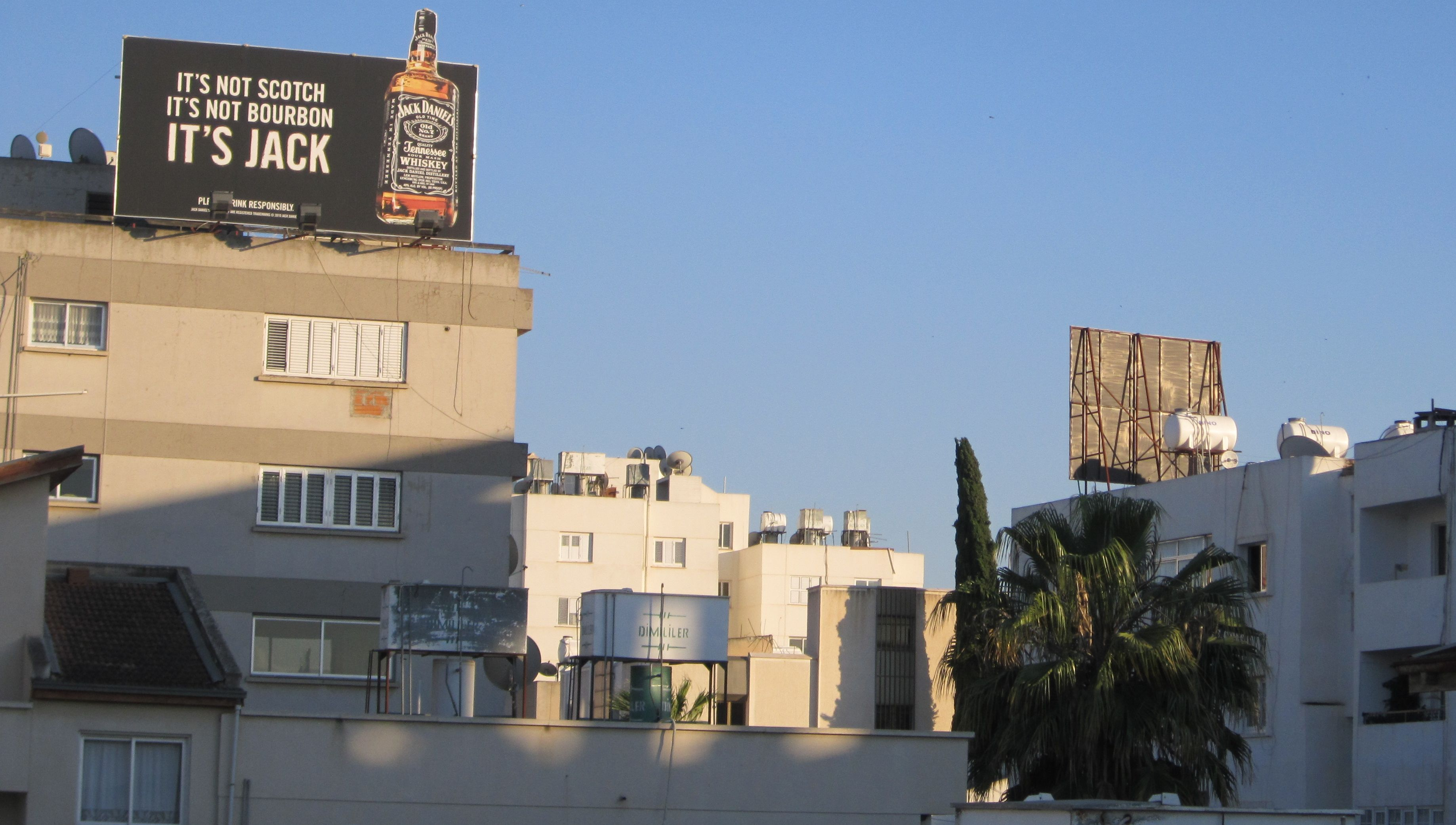 Rooftops in Mehmet Akif Avenue (Dereboyu Avenue), the entertainment center of North Nicosia, Northern Cyprus.